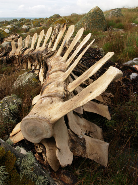 Dead whale, Chippermore. The spine of the whale pictured in 907912. The flesh is virtually gone and the vertebrae are starting to separate.